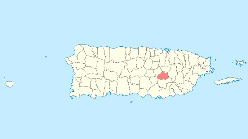 Municipal locator of Puerto Rico